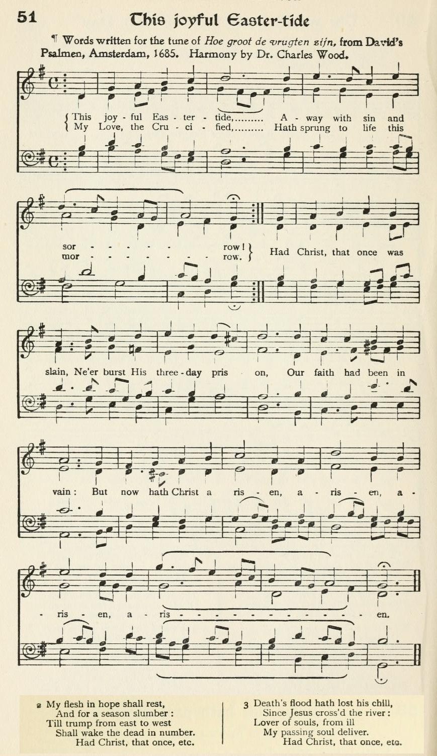 This joyful Easter-tide (1922 print)